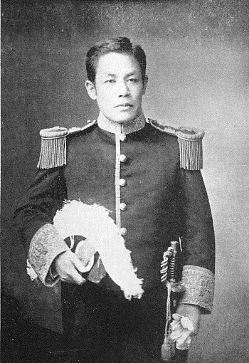 Aritane Soma